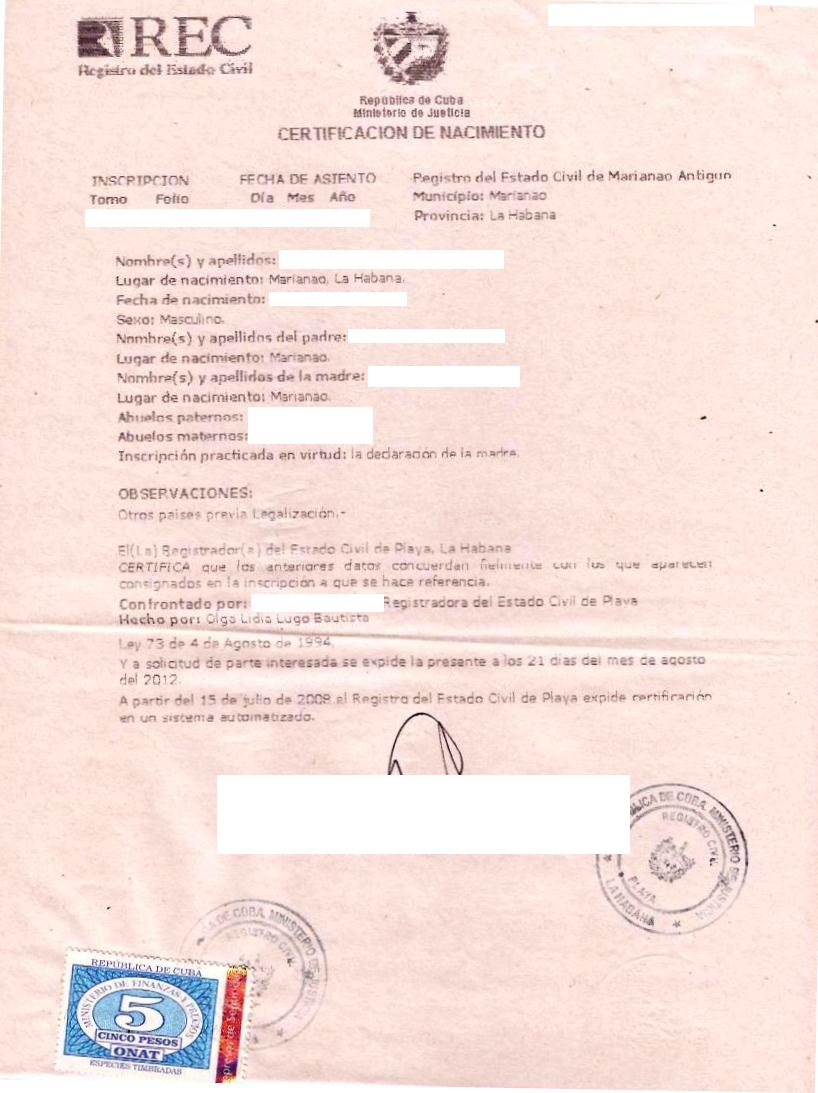 A Cuban certificate of birth.